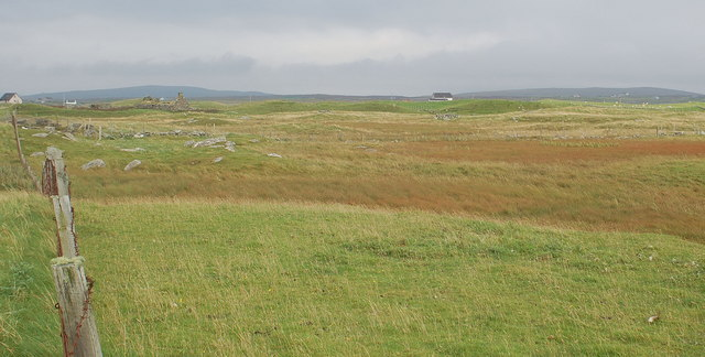 Landscape of East Baleshare, Outer Hébrides, Scotland